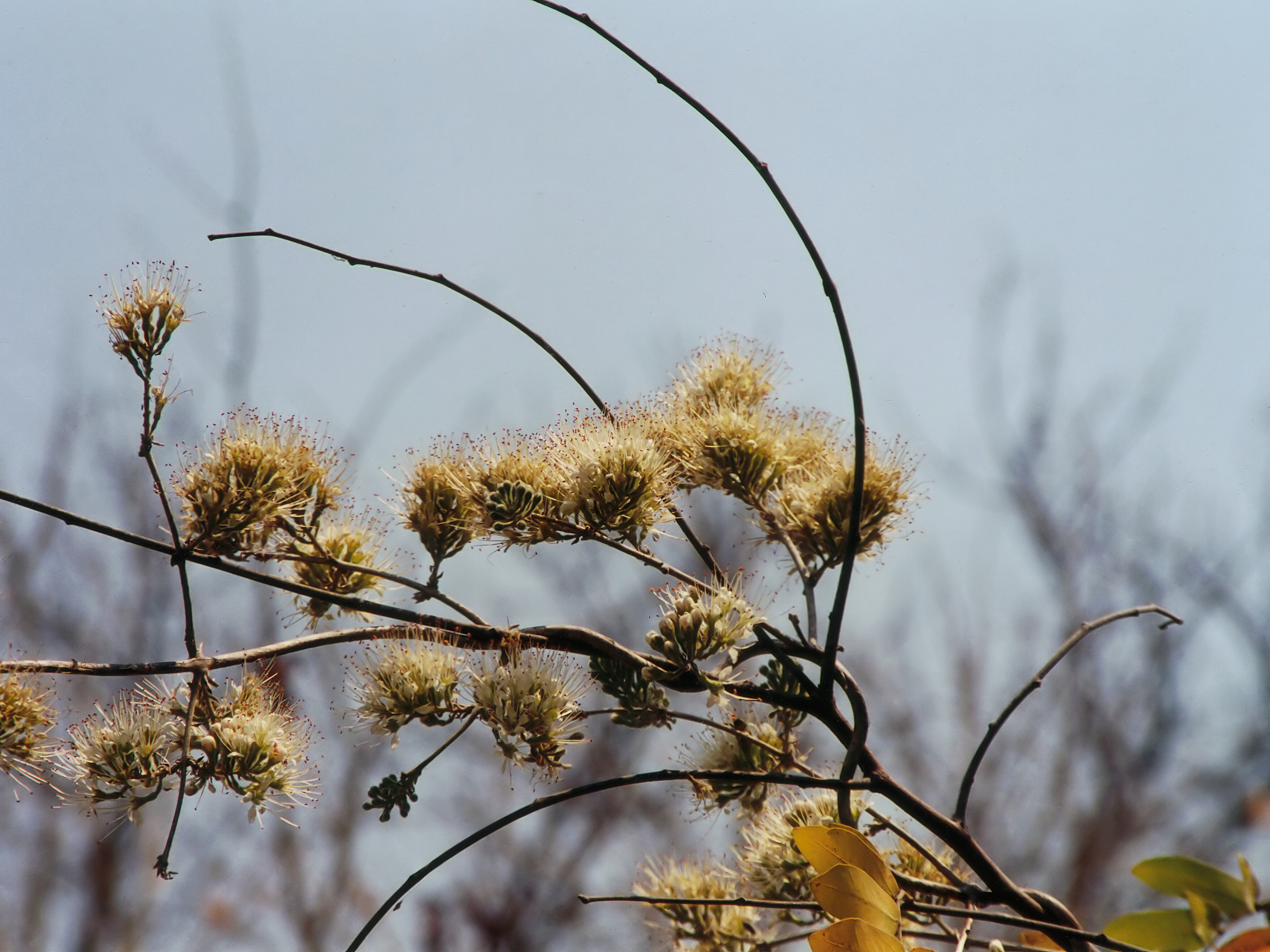 In South Luangwa National Park, Zambia. Scanned from a photograph